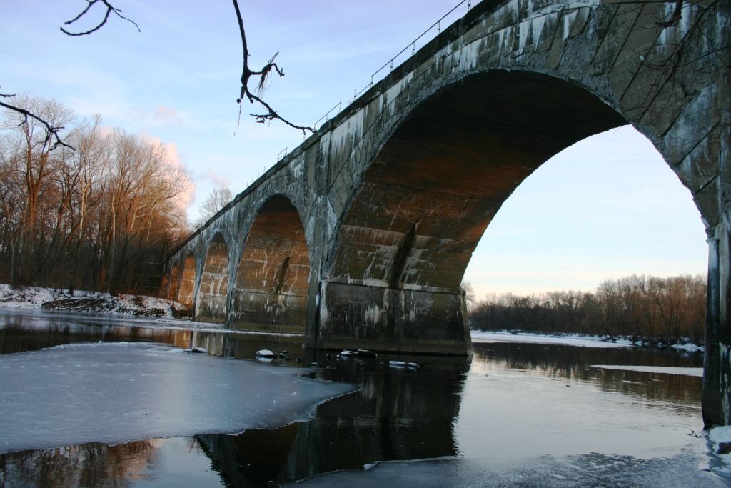 Abandoned arch bridge which formerly carried the Schuylkill Branch over the Schuylkill River at Lower Pottsgrove